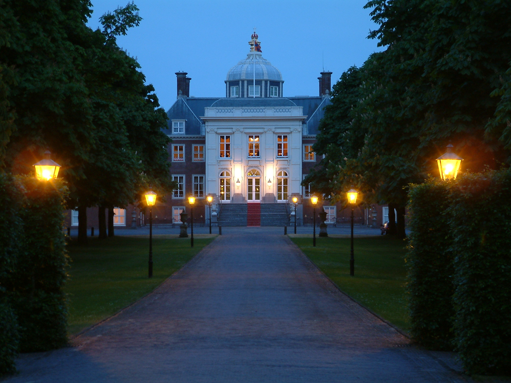 Huis ten Bosch, The Hague, The Netherlands.